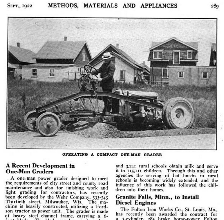 Magazine coverage of the Wehr grader built with Fordson power unit.